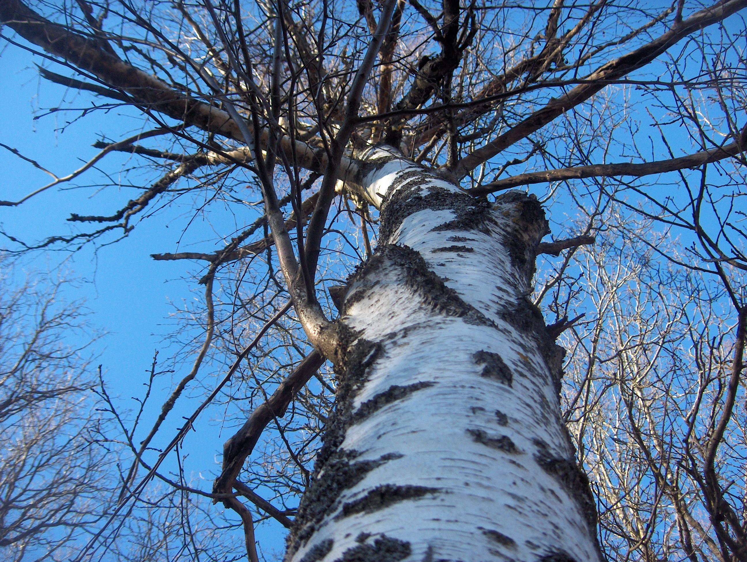 Betula pendula in Ågestasjön ("the Ågesta lake") in Stockholm. Photographed by me in spring 2008.